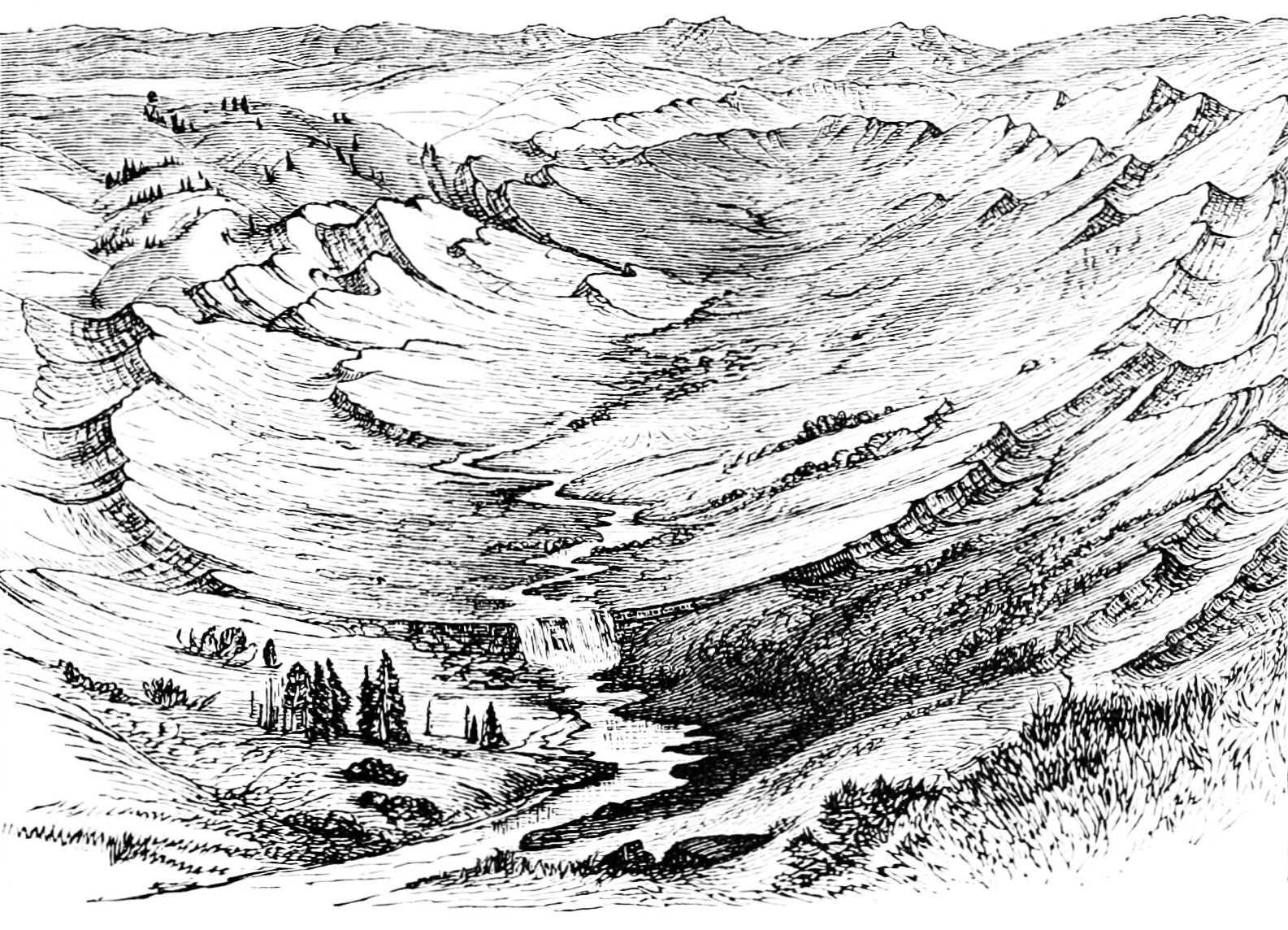 A synclinal valley